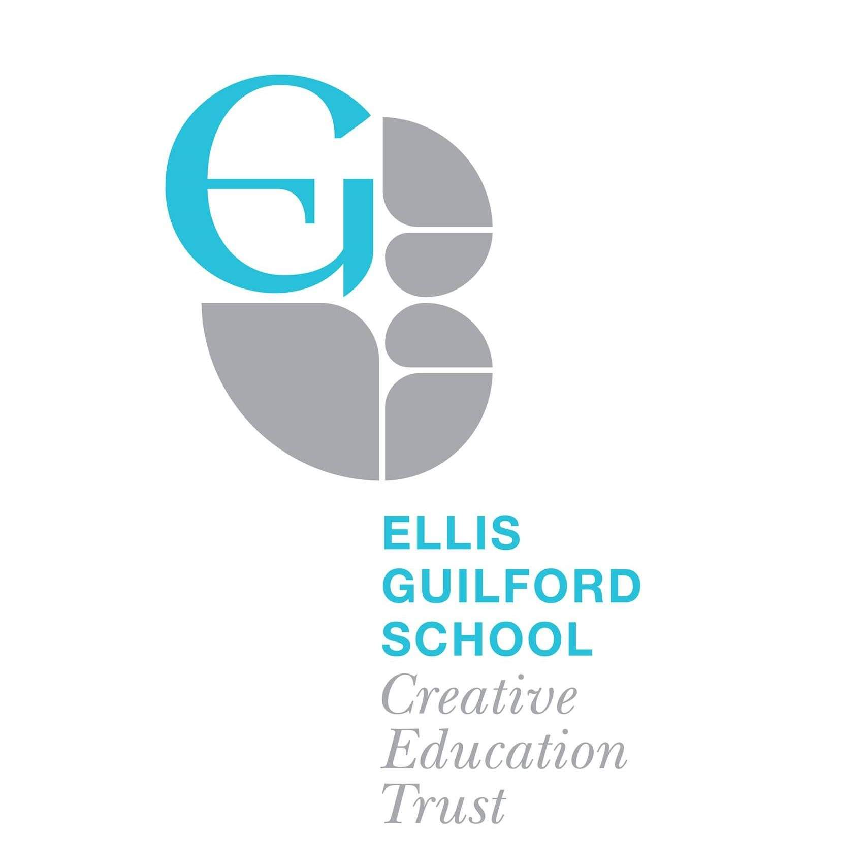 This is the new logo of Ellis Guilford School after joining the Creative Education Trust